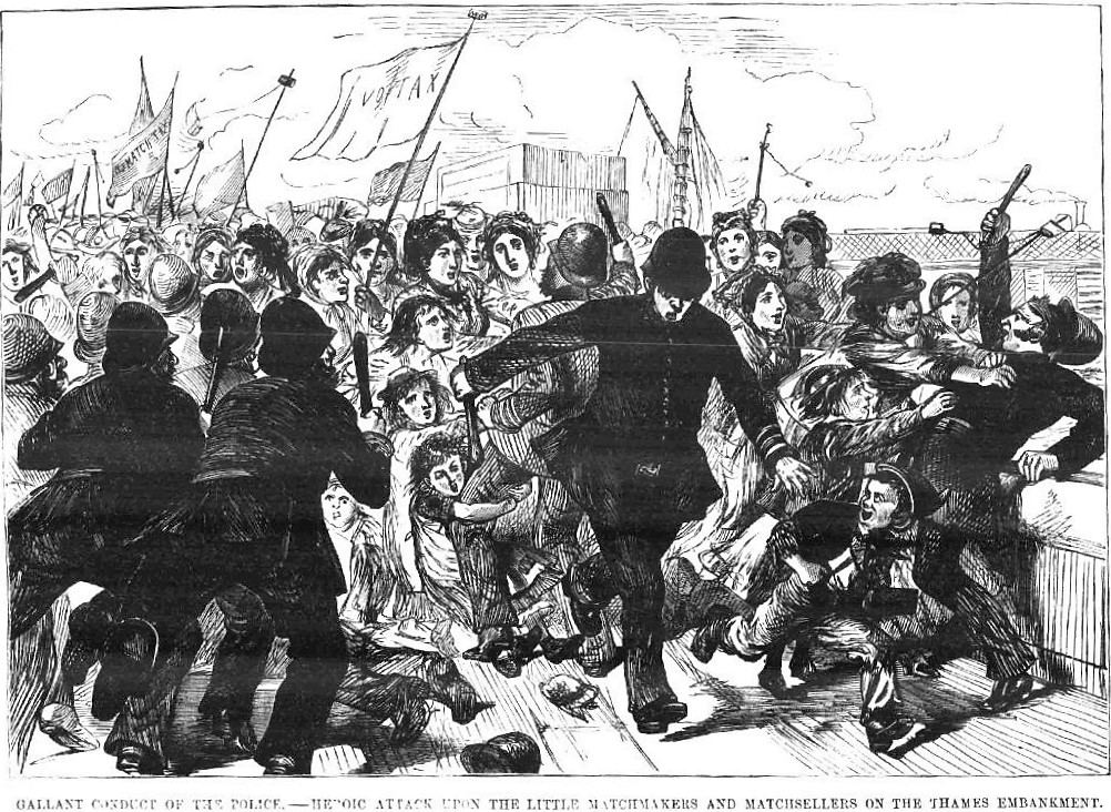 Cartoon showing police brutality against the match makers' demonstration, 1871